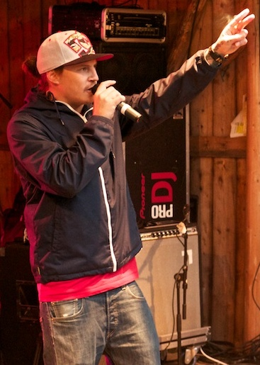 Jaa9 & OnklP in da woods.